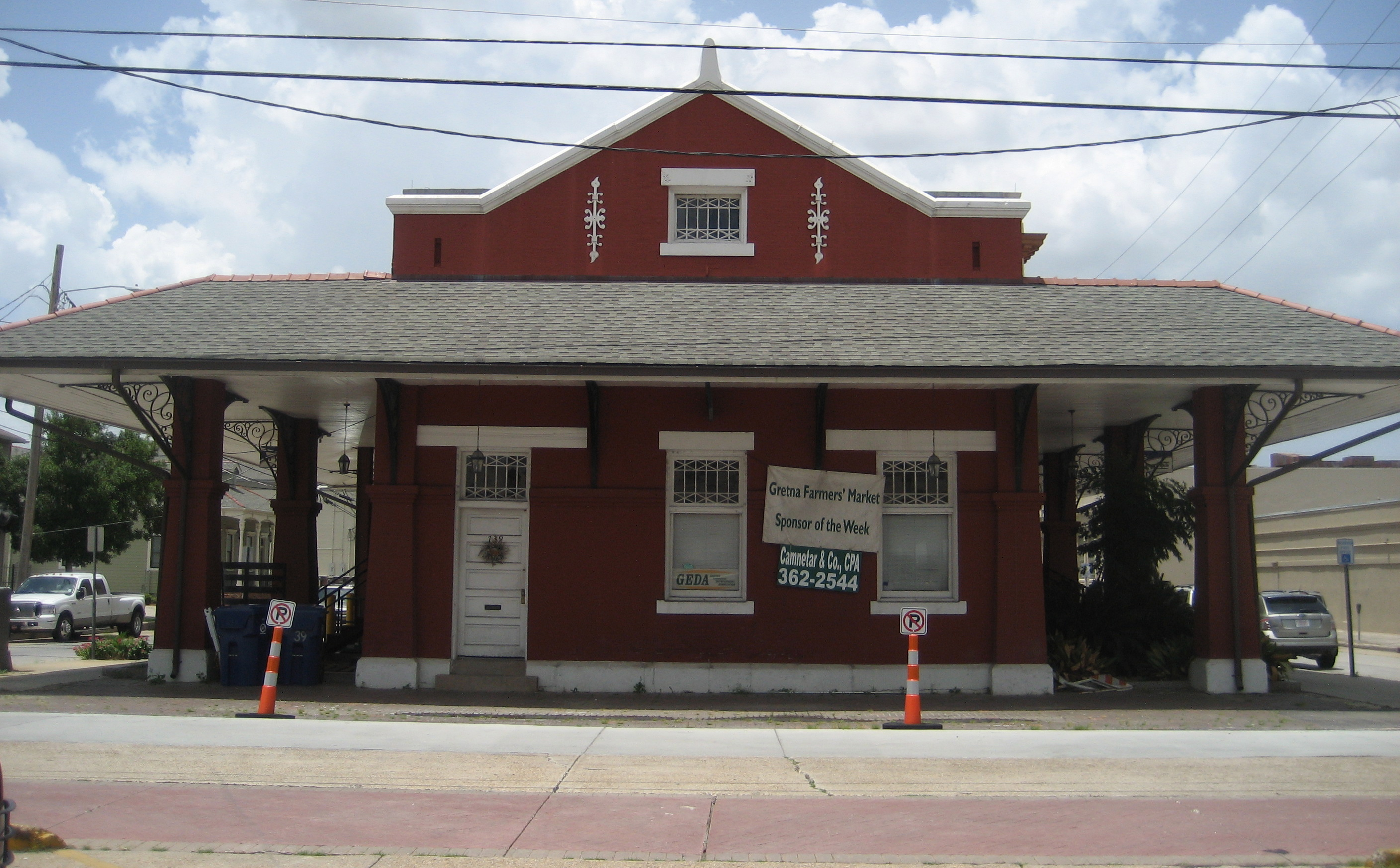 Gretna, Louisiana. Old railway station building.